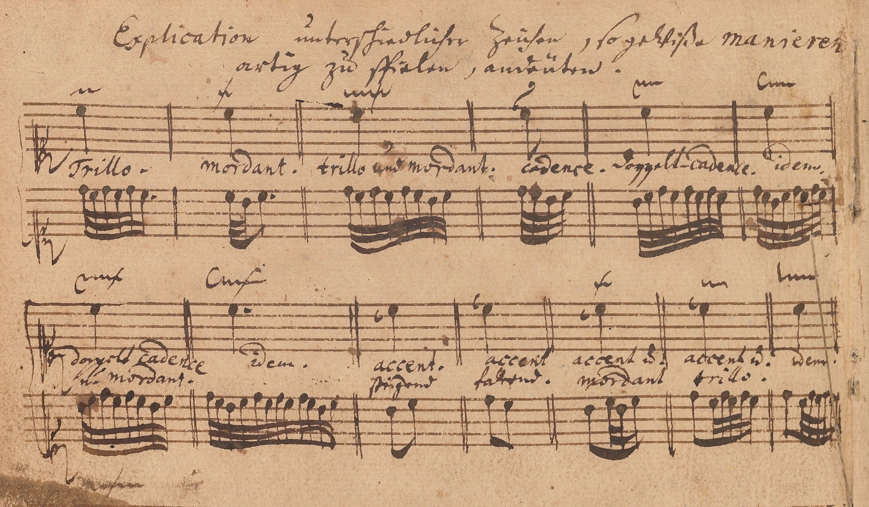 Explanation of ornaments written in Johann Sebastian Bach's hand, from the "Klavierbüchlein für Wilhelm Friedemann Bach".